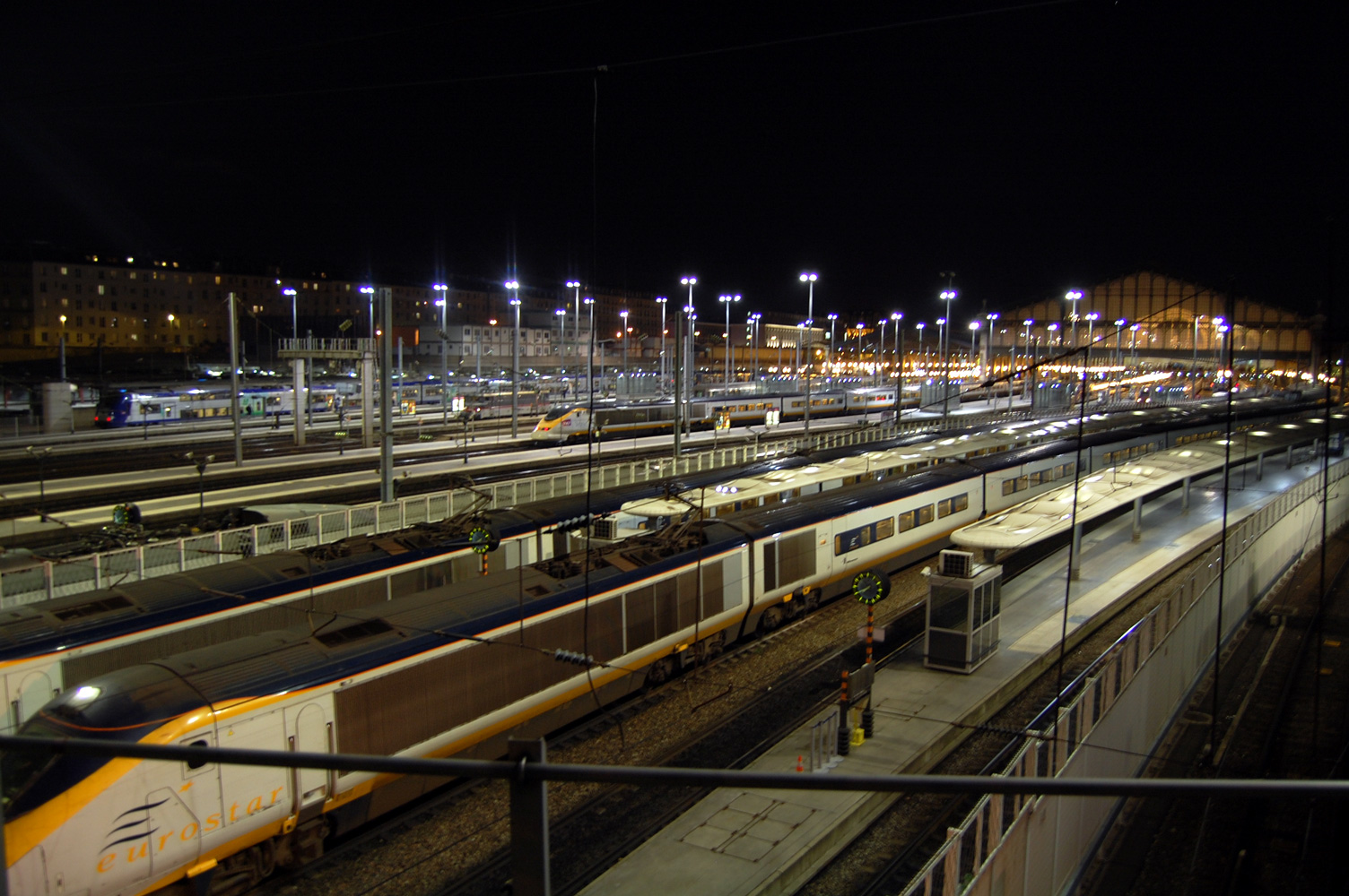 Paris North station (Gare du Nord), Paris, France